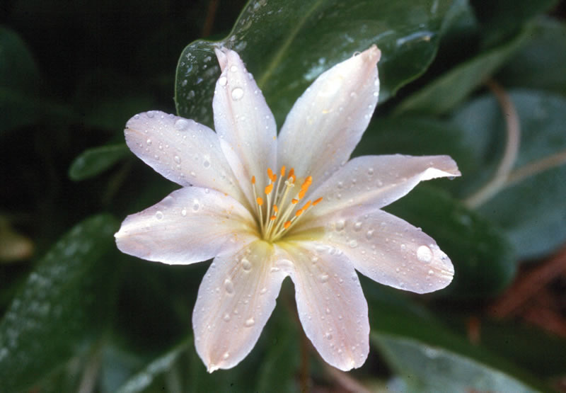 Flower of Tweedy's lewisia